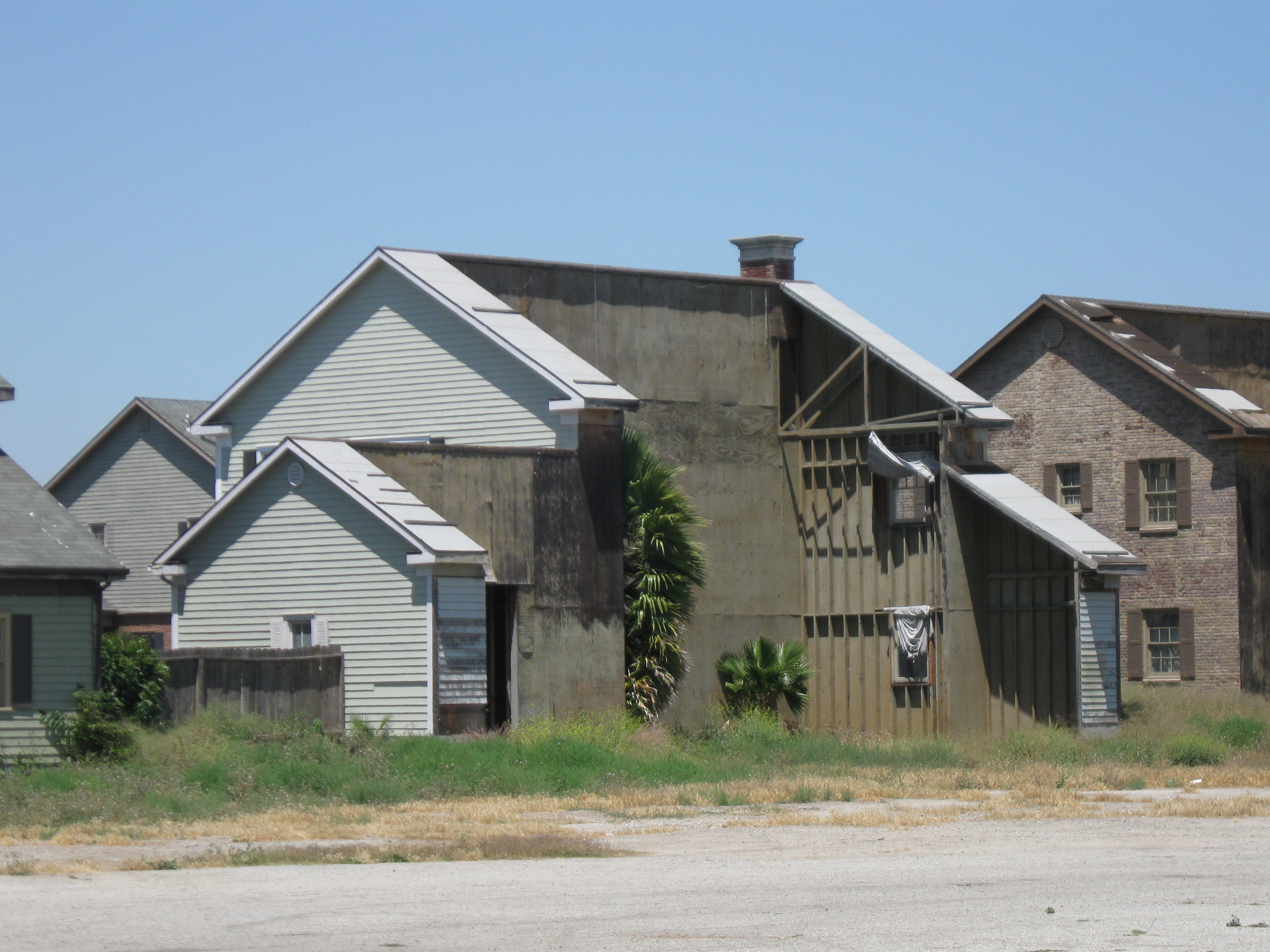 Rear of house facade at Downey Studio